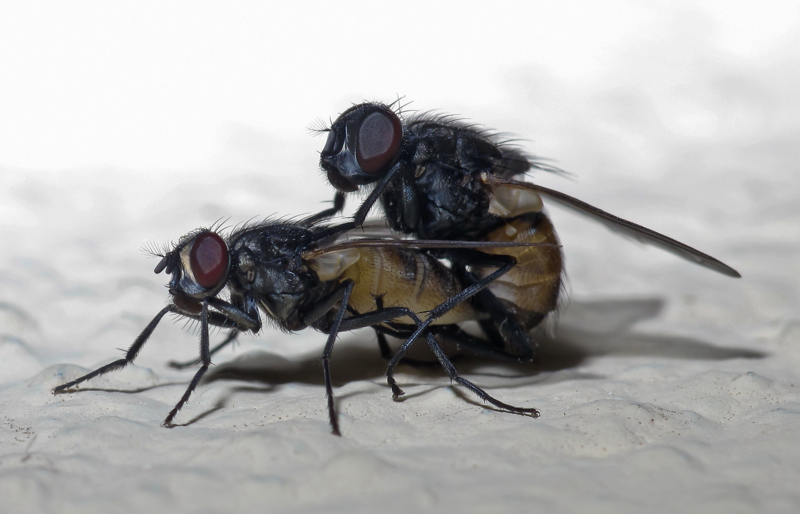 Musca domestica. Bastavales, Brión, Galicia, Spain